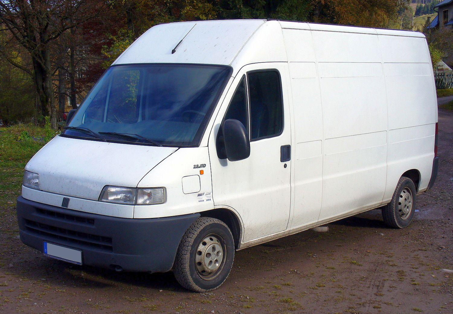 Fiat Ducato